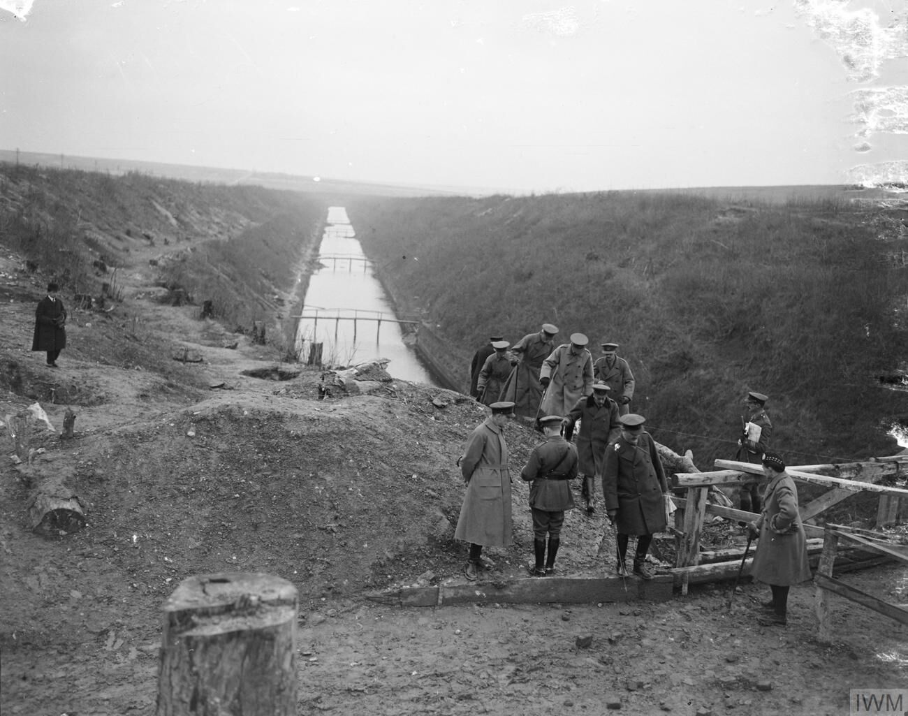 The King at Riqueval Bridge and the scene of the exploit of the 137th Brigade, 46th Division in crossing the St. Quentin Canal on 29th September 1918. (2 December). British official photographer (David McClellan)